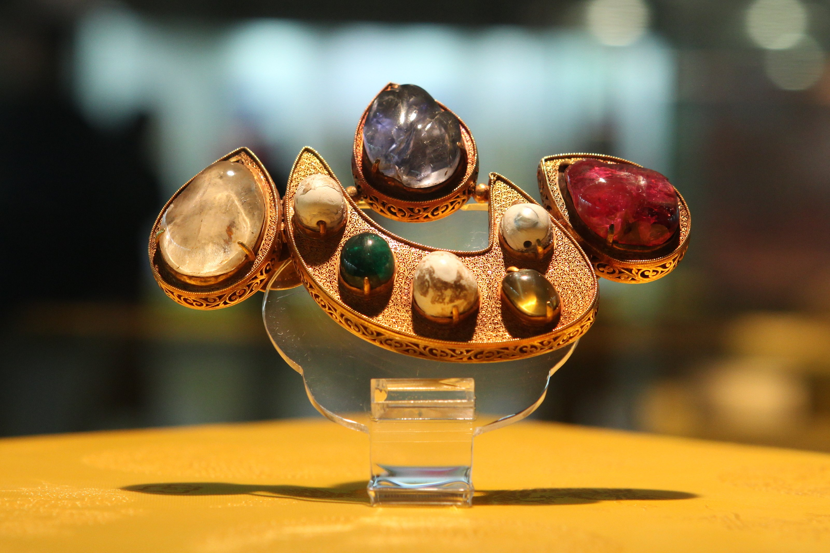 This piece of jewelry was one of the most beautiful antiques excavated from the Dingling, Welcome one of the Ming Dynasty Tombs. It was made during the Ming Dynasty (1368–1644) in China, by using gold, ruby, pearl and other gemstones, and is about the size of an adult human's palm. It is of the shape of a Chinese character '心' (read Xin), which literally means heart. This photo was taken at the Dingling Museum.